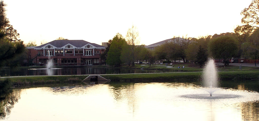 Photo taken by Richard Chambers looking across the lake on the campus of Georgia Southern University from near the engineering building, downhill from the Betty Foy building towards Lakeside Cafe, the build towards the left of center of the image, with the rooftop of the College of Information Technology visible over the trees on the right of center of the image.